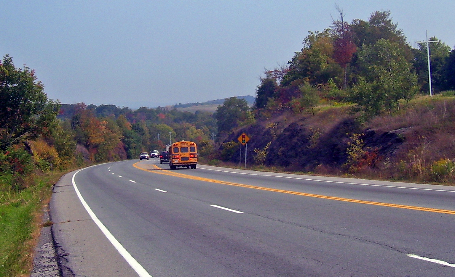 US 6/NY 17M descending into the Wallkill valley, between Middletown and Goshen, NY, USA.